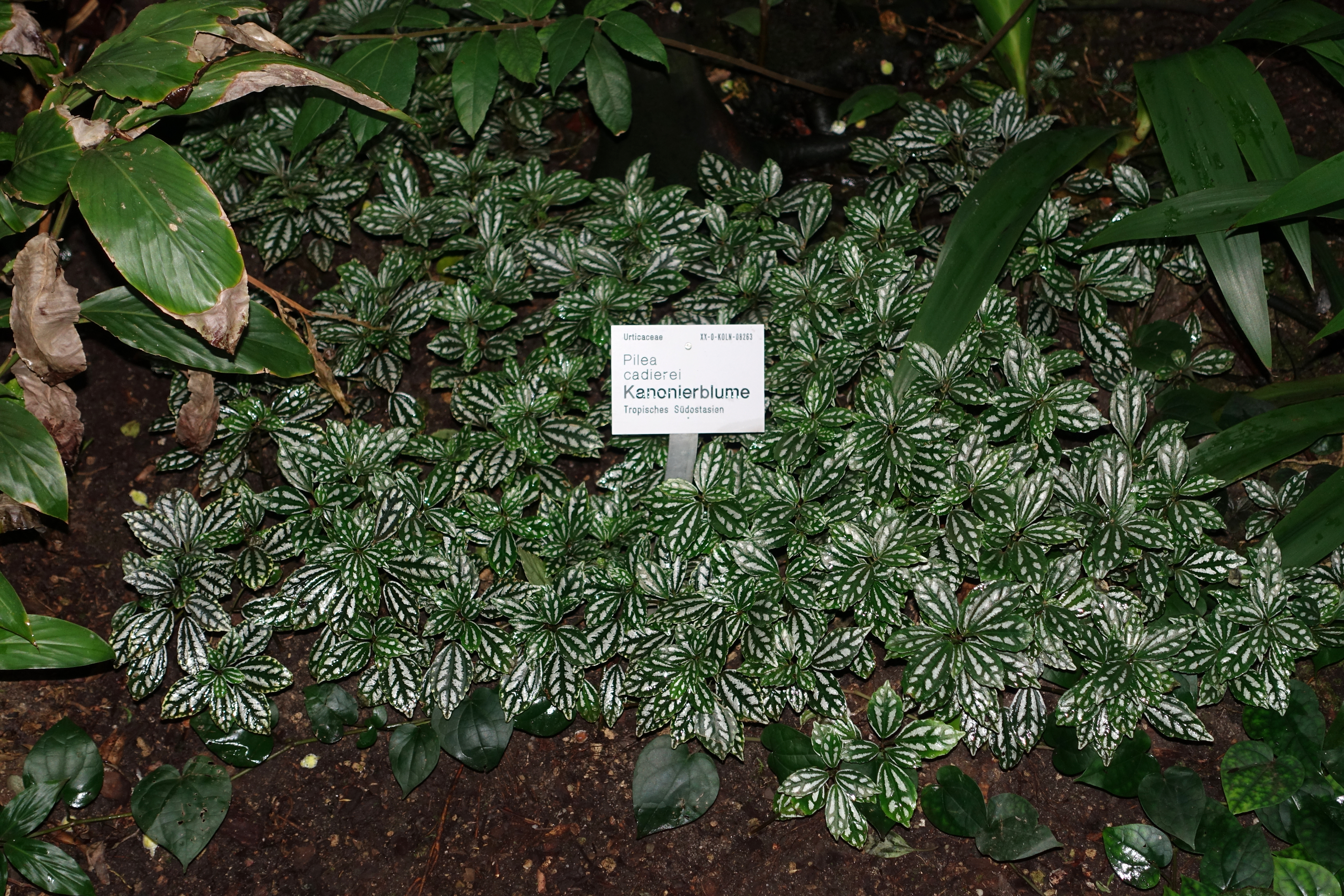 Botanical specimen in the Flora und Botanischer Garten Köln - Cologne, Germany.